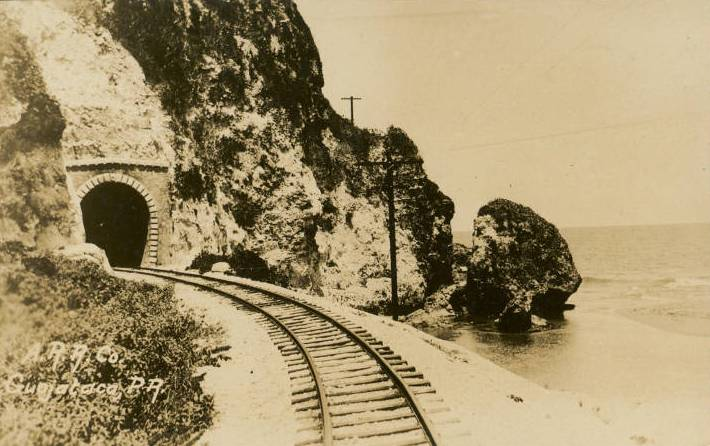 Post Card of the Guajataca Tunnel